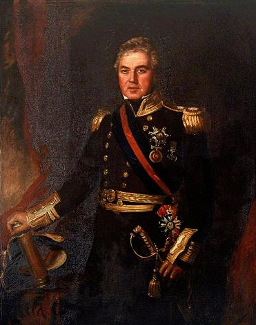 Portrait of Admiral Sir Thomas Briggs GCMG